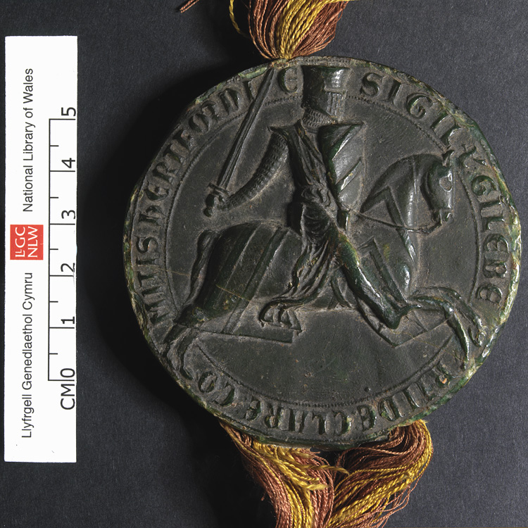 Dyddiad / Date : 1218x1230 Disgrifiad/Description : Seal of Gilbert de Clare, earl of Gloucester and Hertford, c. 1218-1230. Armoured man in surcoat holding a sword up in his right hand and a shield (3 chevrons) in the left, on a horse in armorial caparisons (chevrony) galloping to the right Rhif ffeil delwedd / Image file no. : sea00116 Rhagor o wybodaeth am brosiect Seliau yng Nghymru'r Oesoedd Canol More information about the Seals in Medieval Wales project